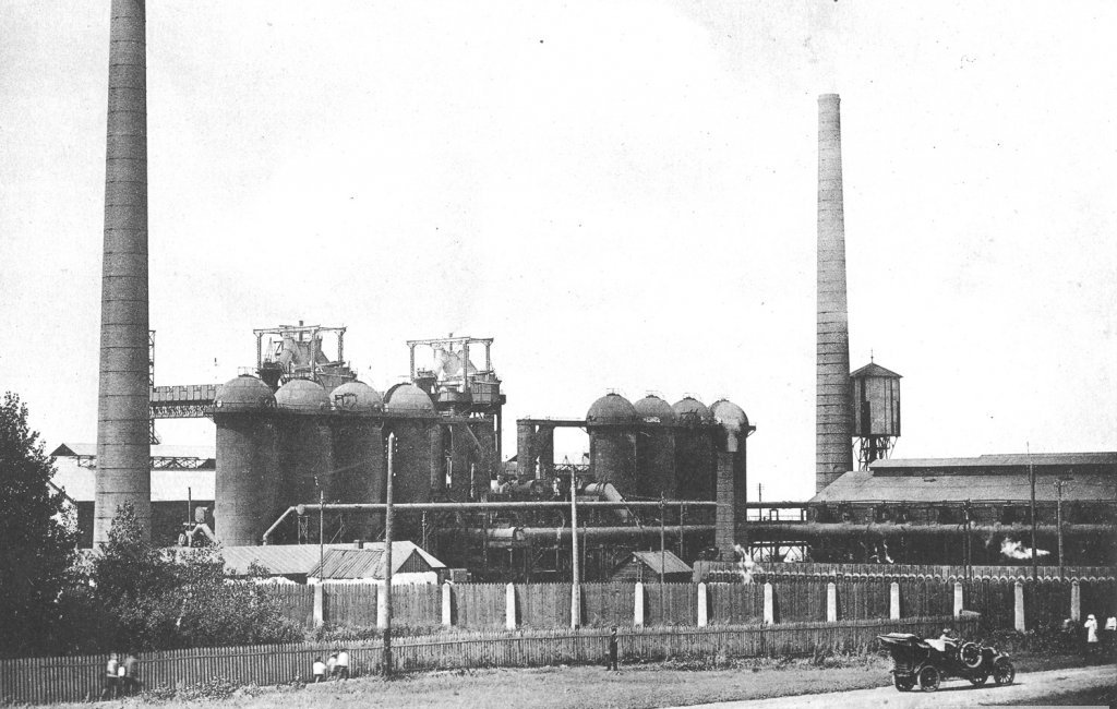 Metallurgical plant in Kadievka (now Kadiivka, Ukraine)